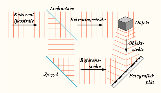 Swedish language version of Image:Holograph-record-notext.png, made by DrBob, modified by Xauxa.